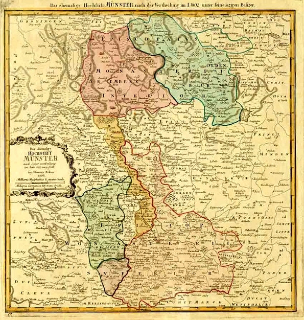 Map from 1803 showing how the territory of the large Prince-Bishopric (Hochstift) of Münster was partitioned in 1802 in the course of the German Mediatization that saw all the prince-bishoprics save one secularized. The northern half (the Niederstift) was divided between the dukes of Oldenburg (aqua) and Arenberg (purple), while the larger part of the central and southern half (the Oberstift), comprising the city of Münster, was taken by Prussia (pink), the balance being divided between lesser rulers such as the princes or counts of Rhena-Wolbeck (yellow), Salm-Salm (green), Croÿ/Salm-Kyrburg (light purple) and Salm-Grumbach. Not highlighted in color is the small district of Bocholt to the southwest previously annexed to the French Republic. This rare and unusual map was published by Homann Heirs in 1803, shortly after the secularization of Münster.